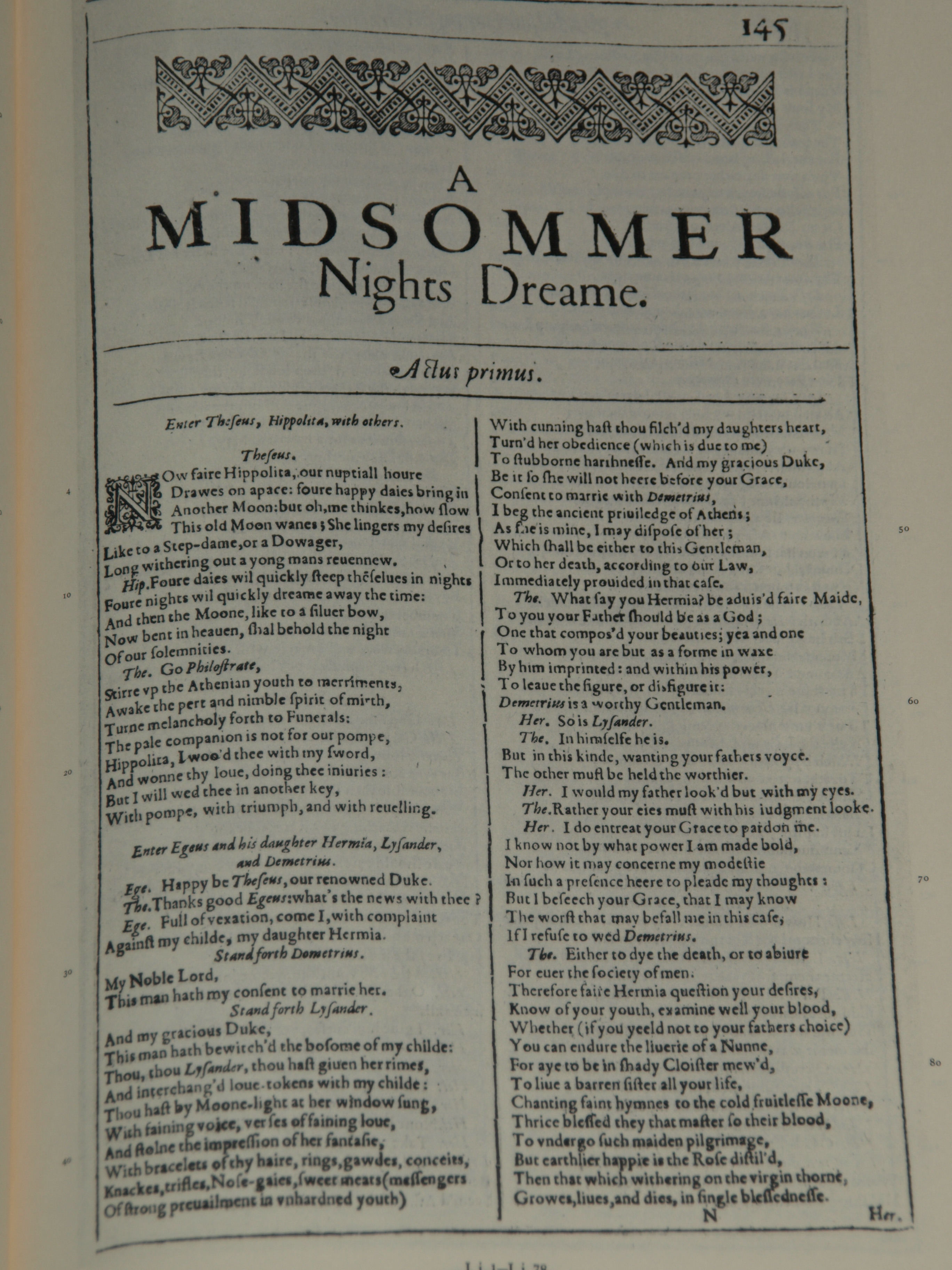 Photo of the first page of A Midsummer Night's Dream from a facsimile edition of the First Folio of Shakespeare's plays, published in 1623